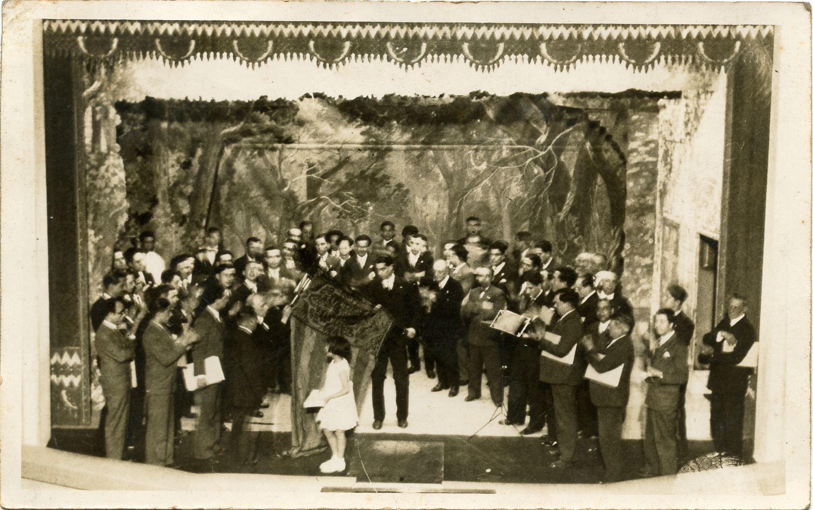 Act of placing a bow in the banner of Entitat Coral La Violeta de Clavé. 24th April 1932. Collection La Violeta de Clavé.